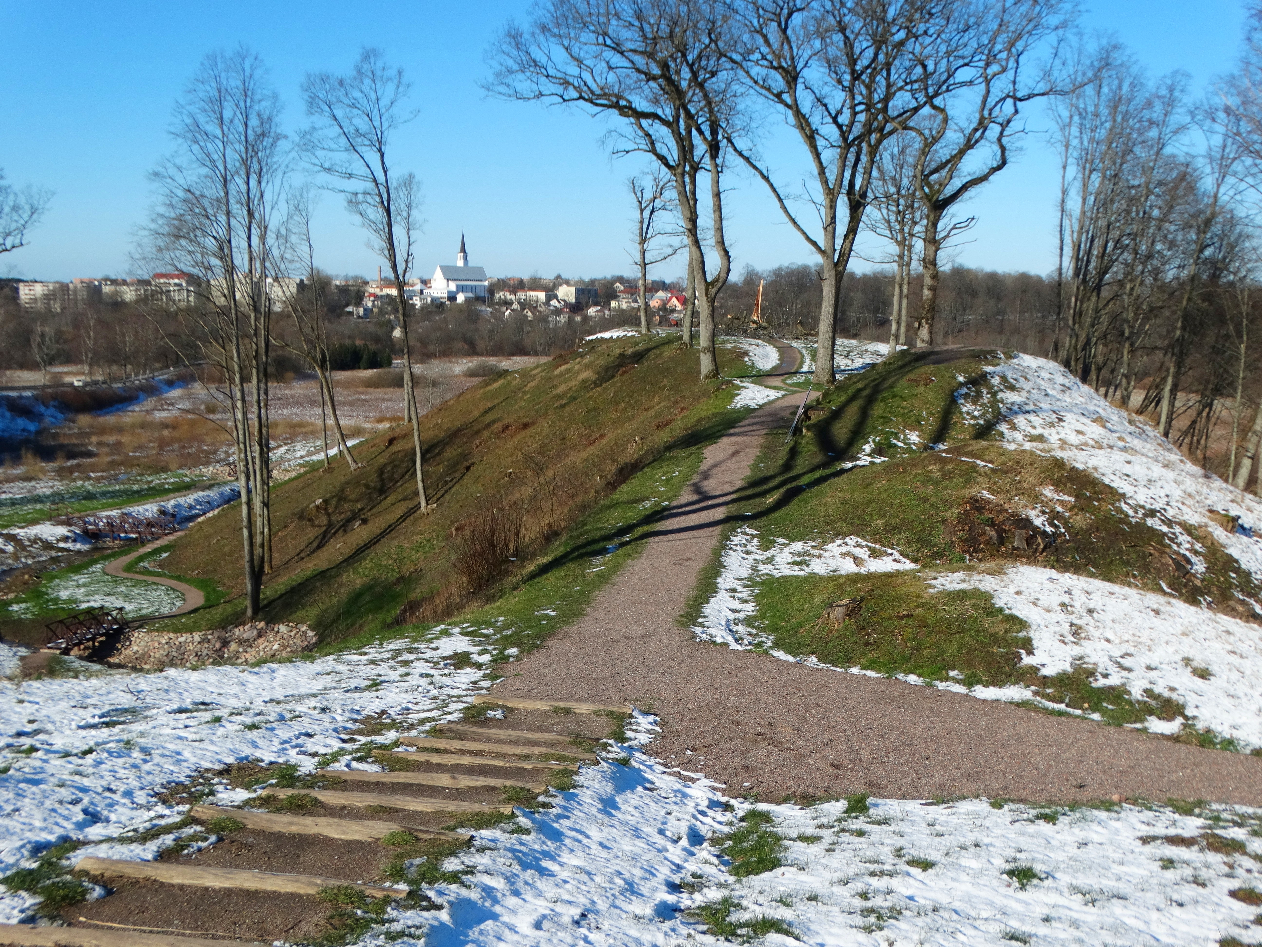 Kalniškė hillfort, Gargždai, Lithuania